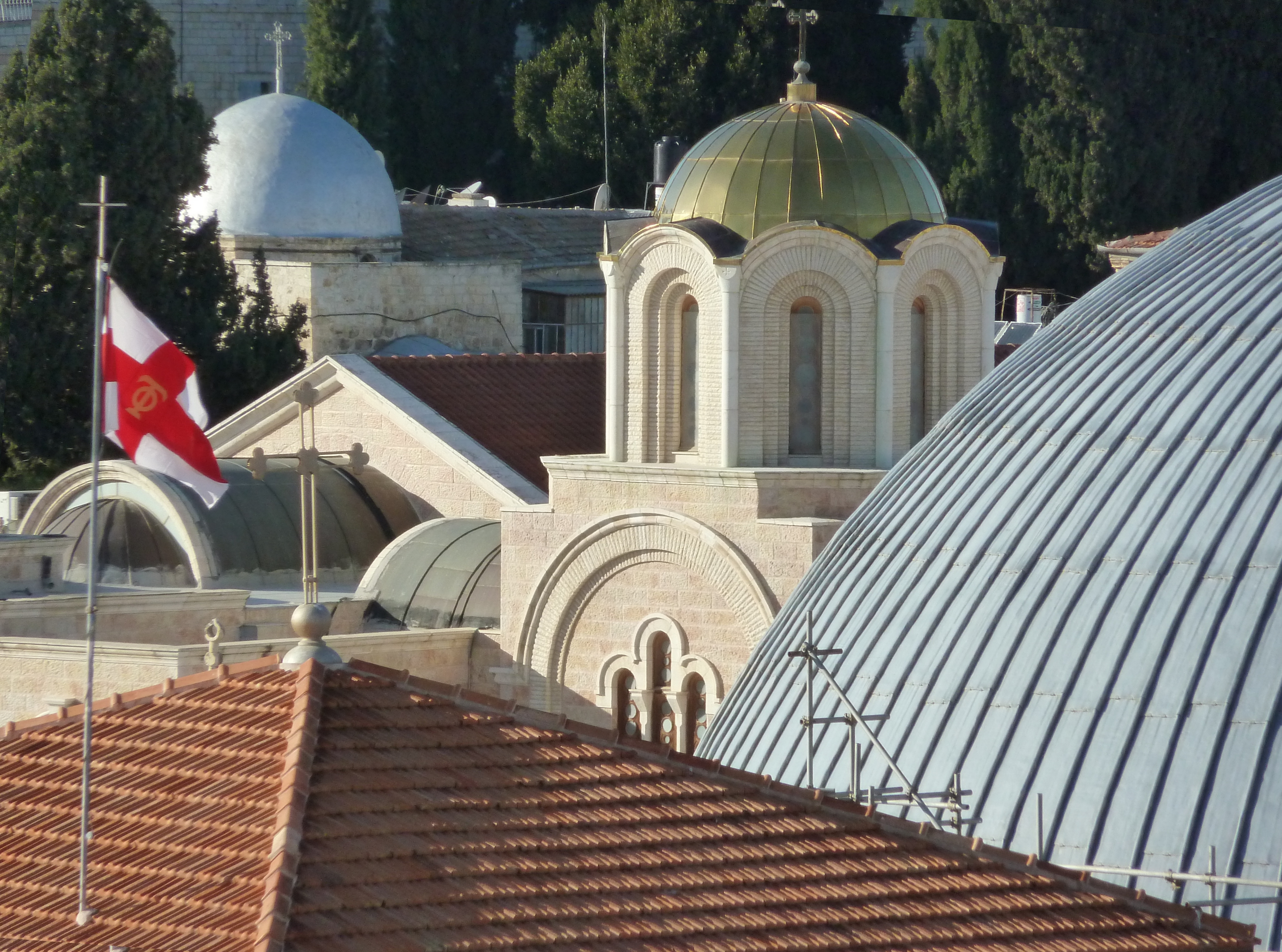 Old Jerusalem Greek Orthodox Patriarchate golden dome and flag. View from the Lutheran Church of the Redeemer